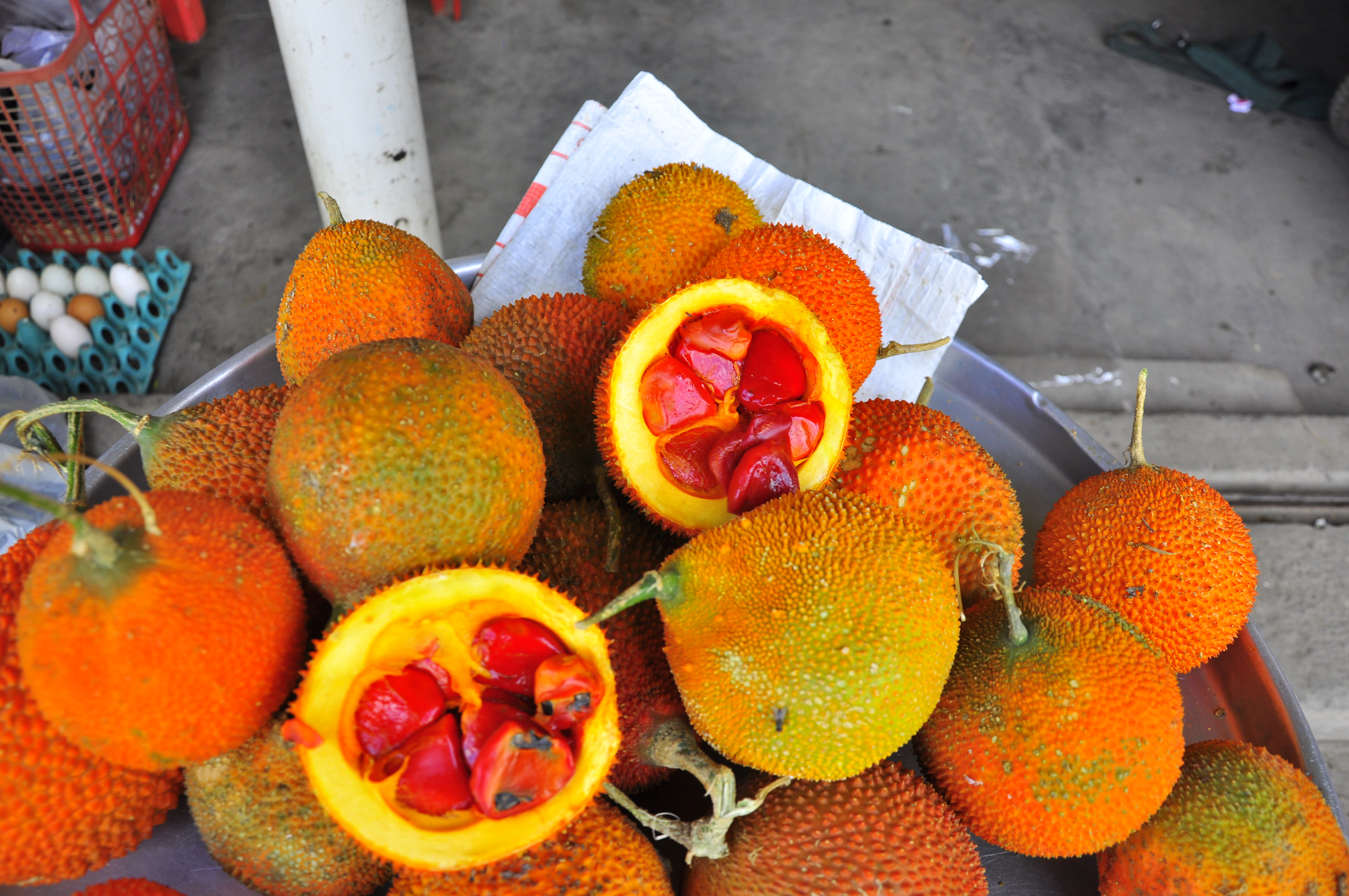 A Quả Gấc Fruit in Vietnam (Saigon)